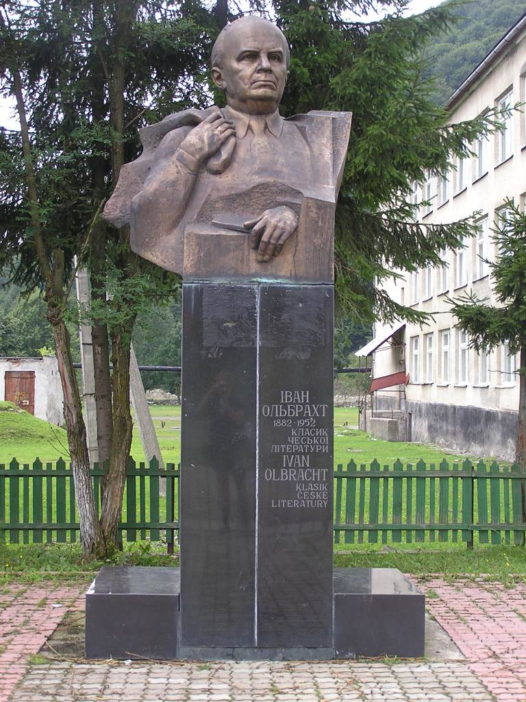 Ivan Olbracht memorial in Kolčava village, Ukraine, 2006-08-26